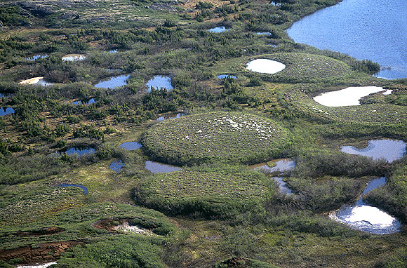 A group of well developed palsas as seen from above. Ice lenses are responsible for palsa (picture) growth.